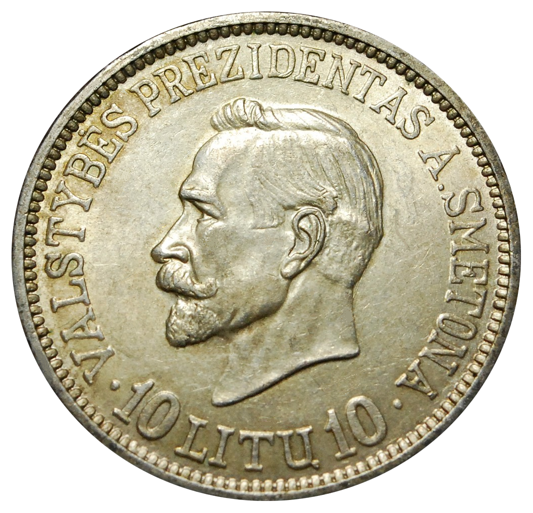 10 Litas (Aversum). The President of Lithuania Antanas Smetona. Lithuania. Year: 1938. Silver (750). Diameter: 32.2 (mm). Weight: 18.00 (g). Gurt: 2.5 (mm), text: TAUTOS JĖGA VIENYBĖJE.